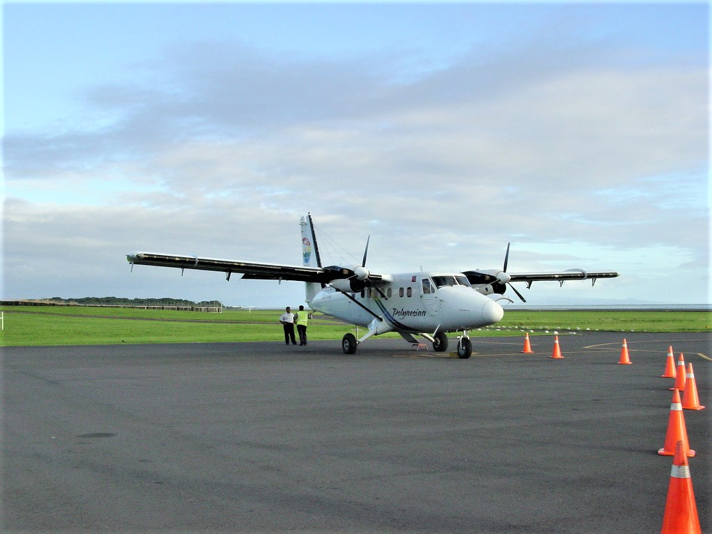 Twin Otter for flight from Apia, Samoa to Niue. Polynesian no longer flies to Niue. The only flight to Niue is a weekly flight from Auckland on Fridays via Air New Zealand.